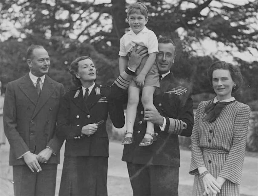 Members of the British Royal Family in Canberra, Australia, in 1946. Left to right: Prince Henry, Duke of Gloucester; Lady Louis Mountbatten; Prince William of Gloucester; Lord Louis Mountbatten; and Alice, Duchess of Gloucester.